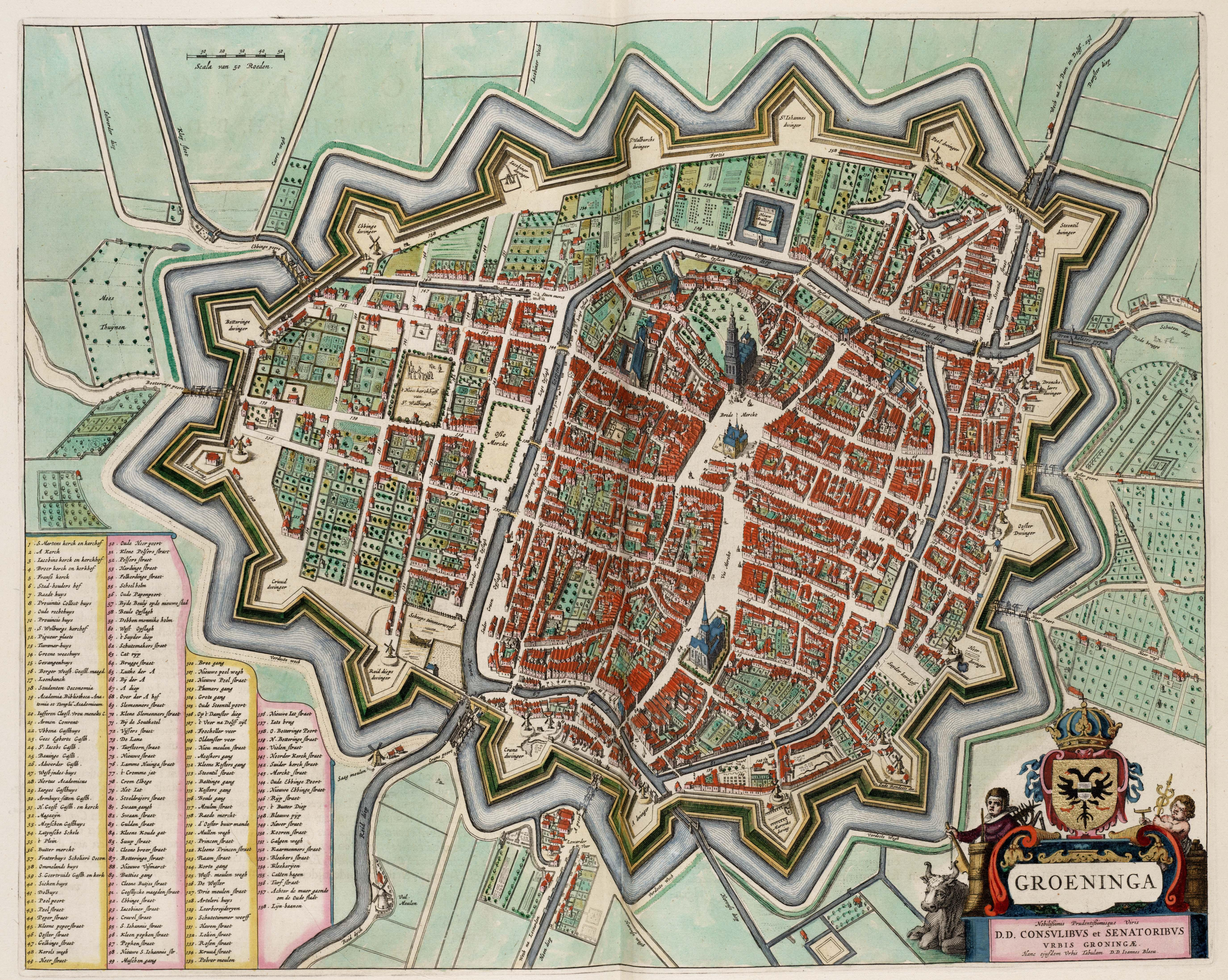 Map of Groningen city